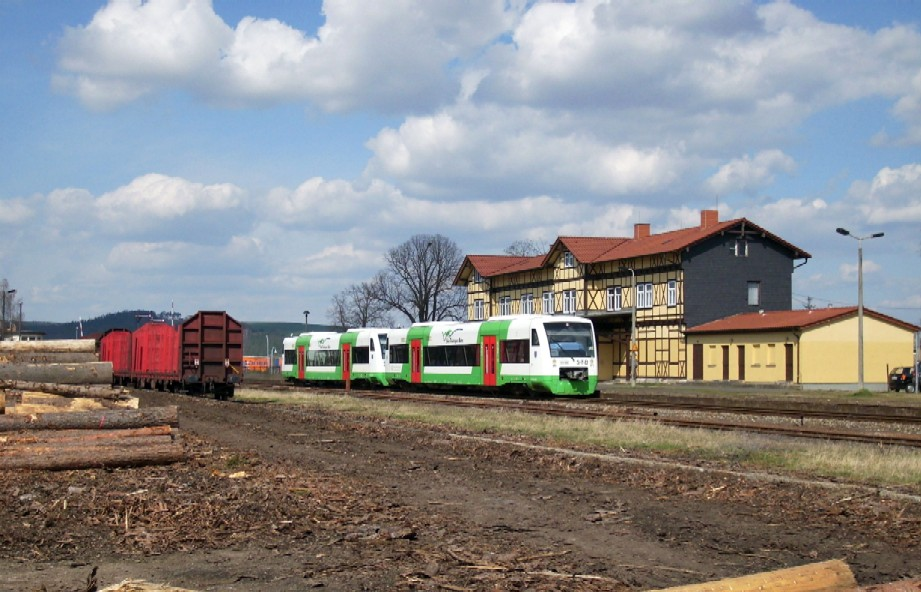 Süd-Thüringen-Bahn in station Immelborn, Thuringia